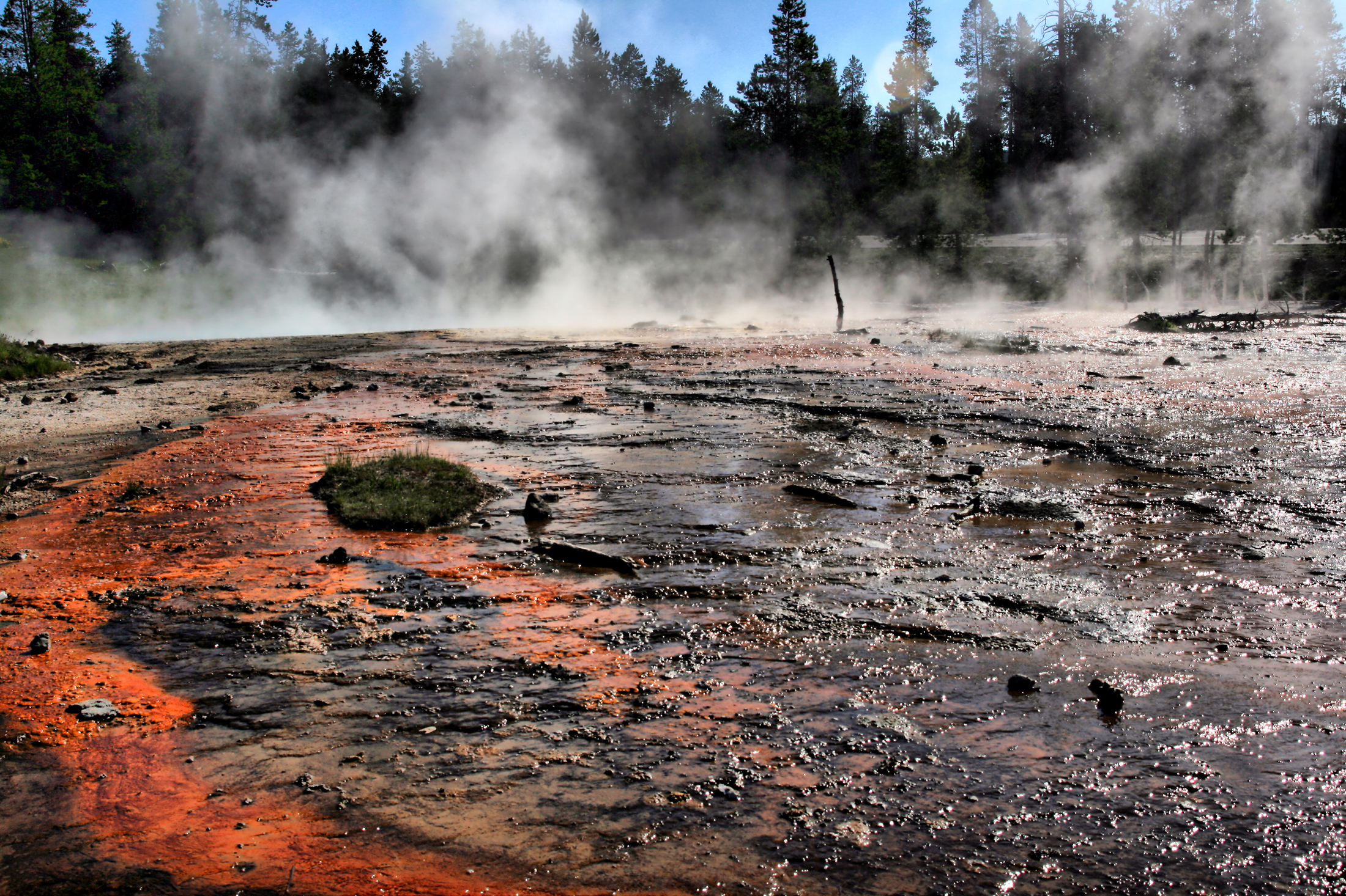 Silex spring in Yellowstone National Park.Hot water is a better solvent than cooler water; it dissolves large amounts of silica, the major element of these volcanic rocks. Silica, in the form of sinter, lines the bottom of Silex spring. It forms terraces along the runoff channels and gives the spring its name: Silex is Latin for silica.Silex Spring overflows most of the year. This overflow creates a hot environment where thermophiles thrive. Thermophiles become food for several kinds of flies that live in and on the hot water. The flies then become food for mites, spiders, various insects and birds